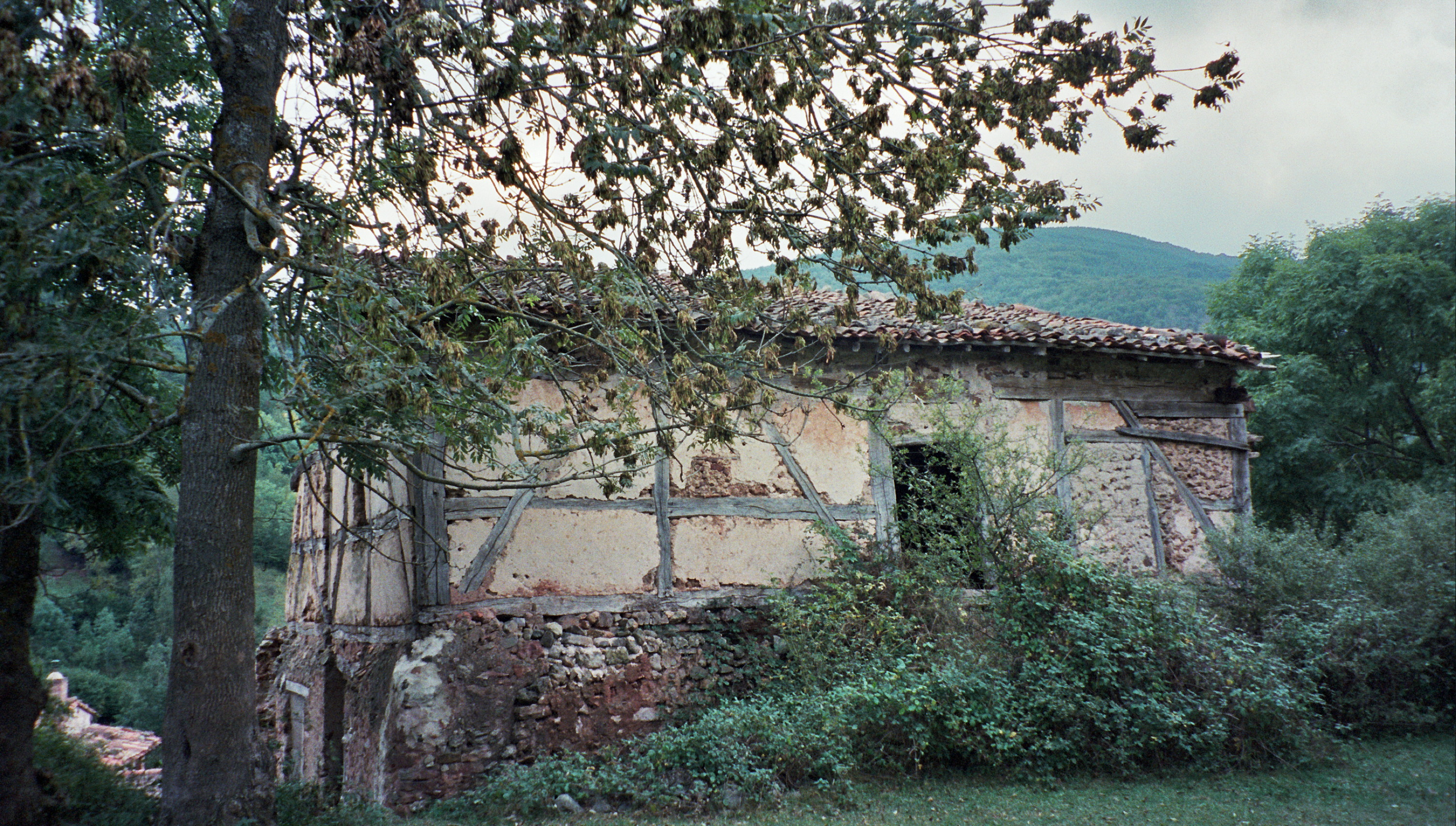 Turza, an abandoned house built in traditional style, La Rioja (Spain). Turza (La Rioja), casa abandonada construída al estilo tradicional de la zona.